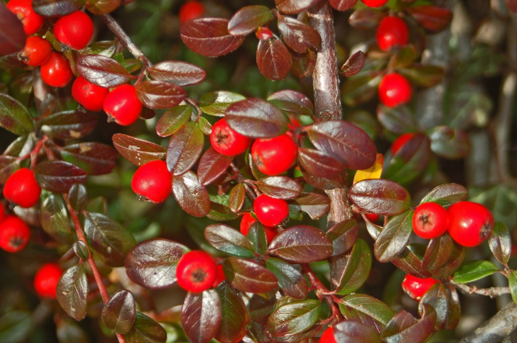 Cotoneaster dammeri - Serra Riccò, Genova, Italy